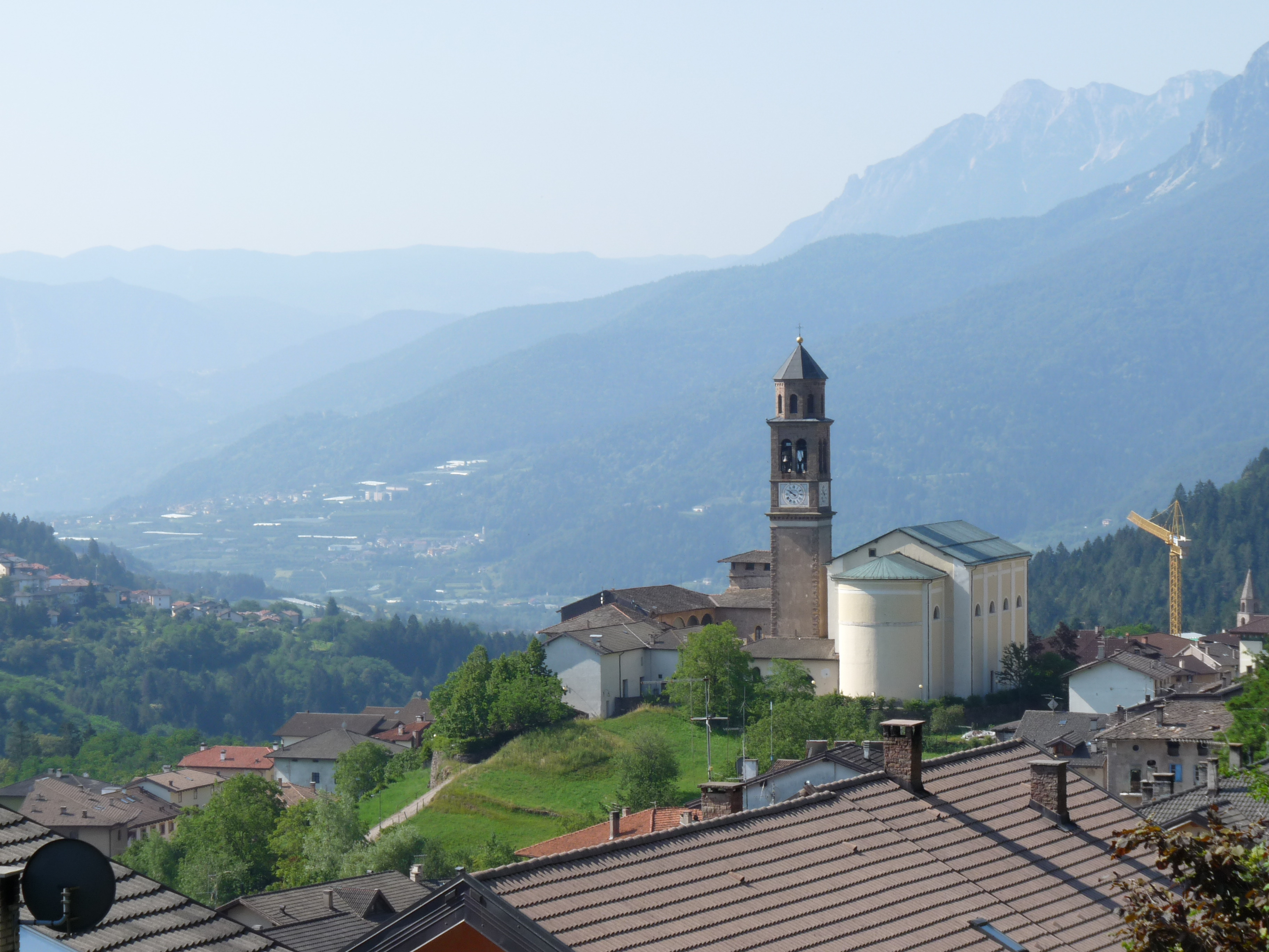 Fornace (Italy): view of the castle and the church of San Martino from north.